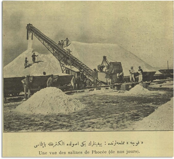 Décauville railway on the Foça saltpans, 1910